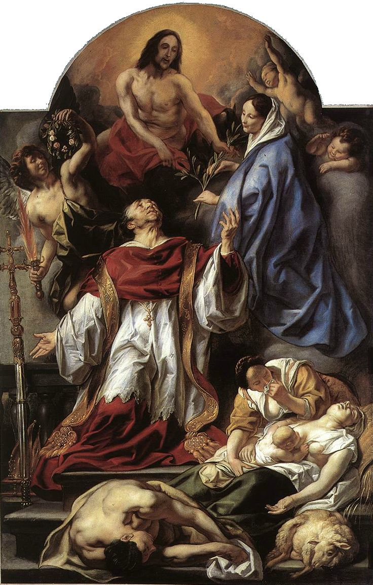 Charles Borromeo Jacob Jordaens," St. Charles Cares for the Plague Victims of Milan", 1655